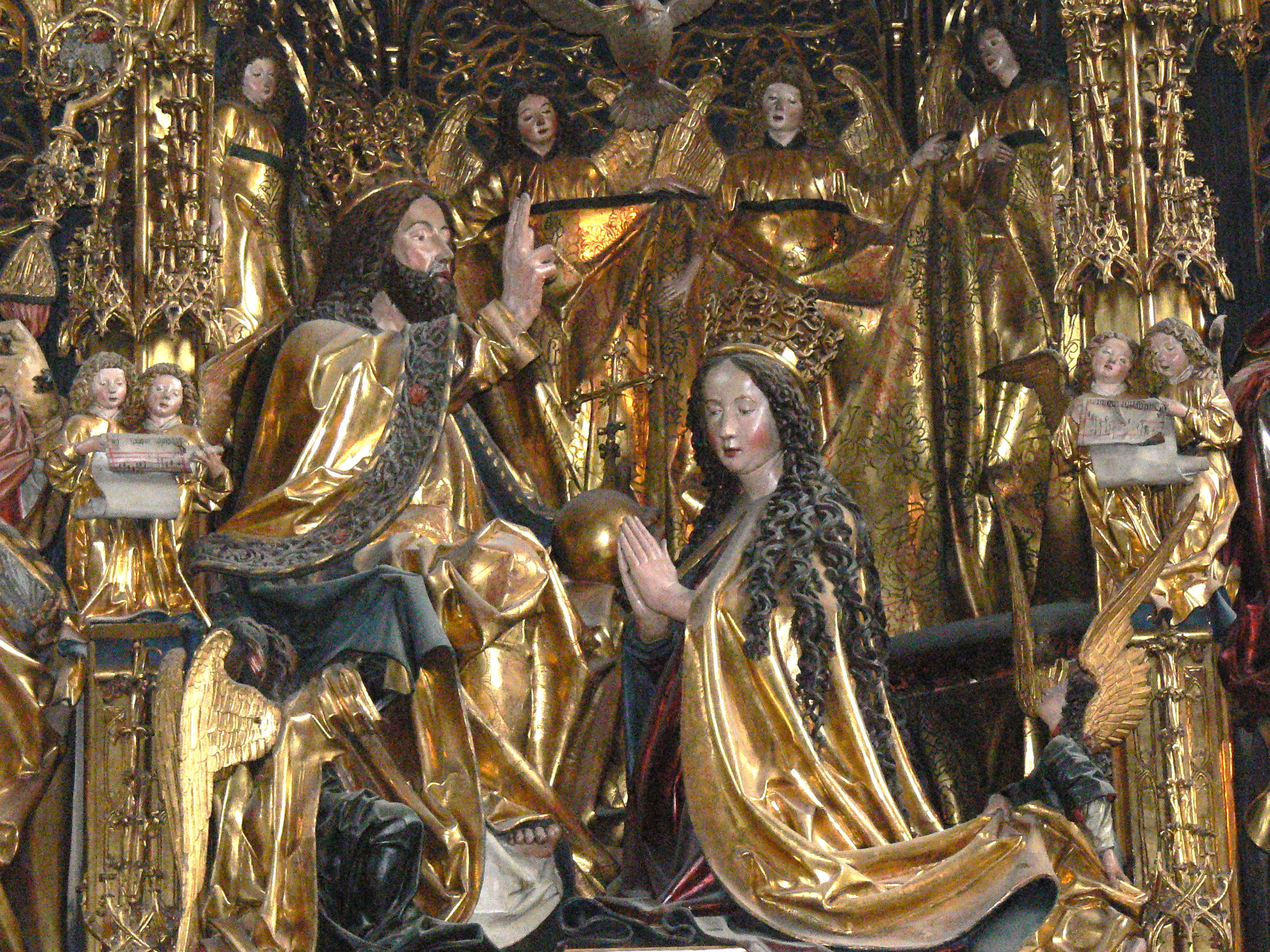 Sankt Wolfgang im Salzkammergut parish church ( Upper Austria ). High altar ( 1481 ) by Michael Pacher: Coronation of Virgin Mary - detail.